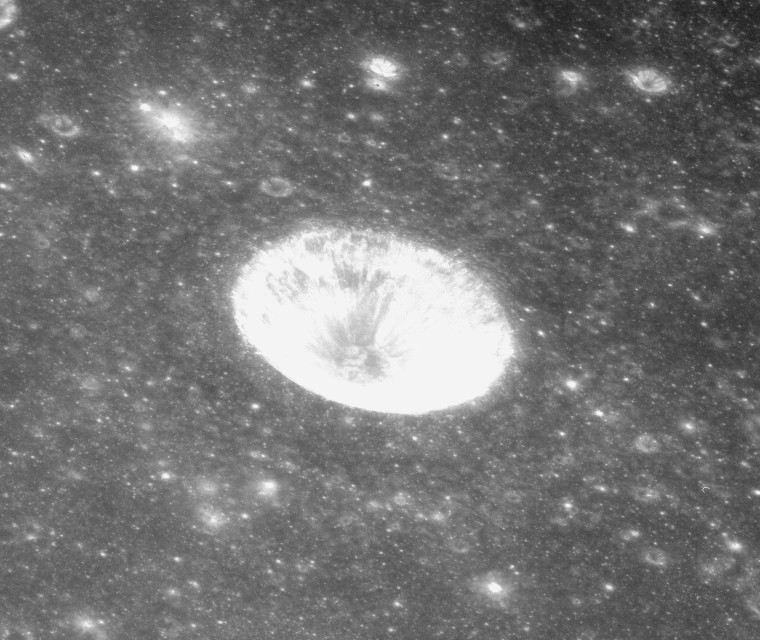 Oblique view of Lucian crater, on the moon. Taken by Apollo 15 panoramic camera